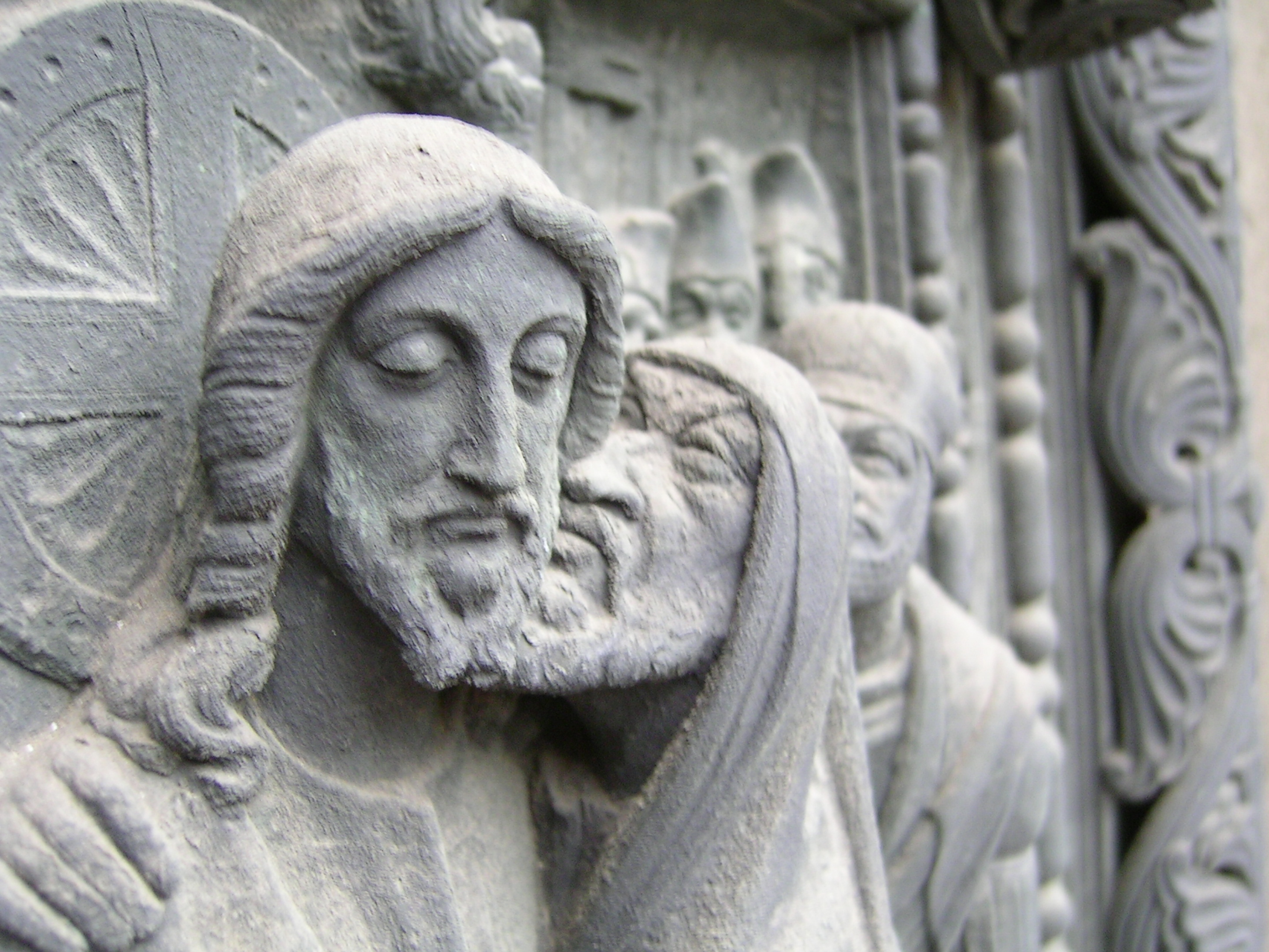 index of plates on the right door Plate Number 15 ( see index on the right ), on the right Door of ST Petri Dom in Bremen, Germany. User:Tarawneh/rami